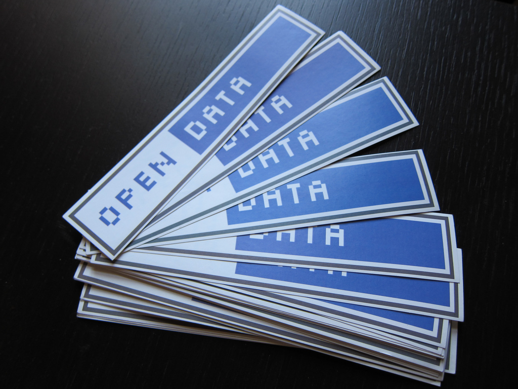 Open Data stickers